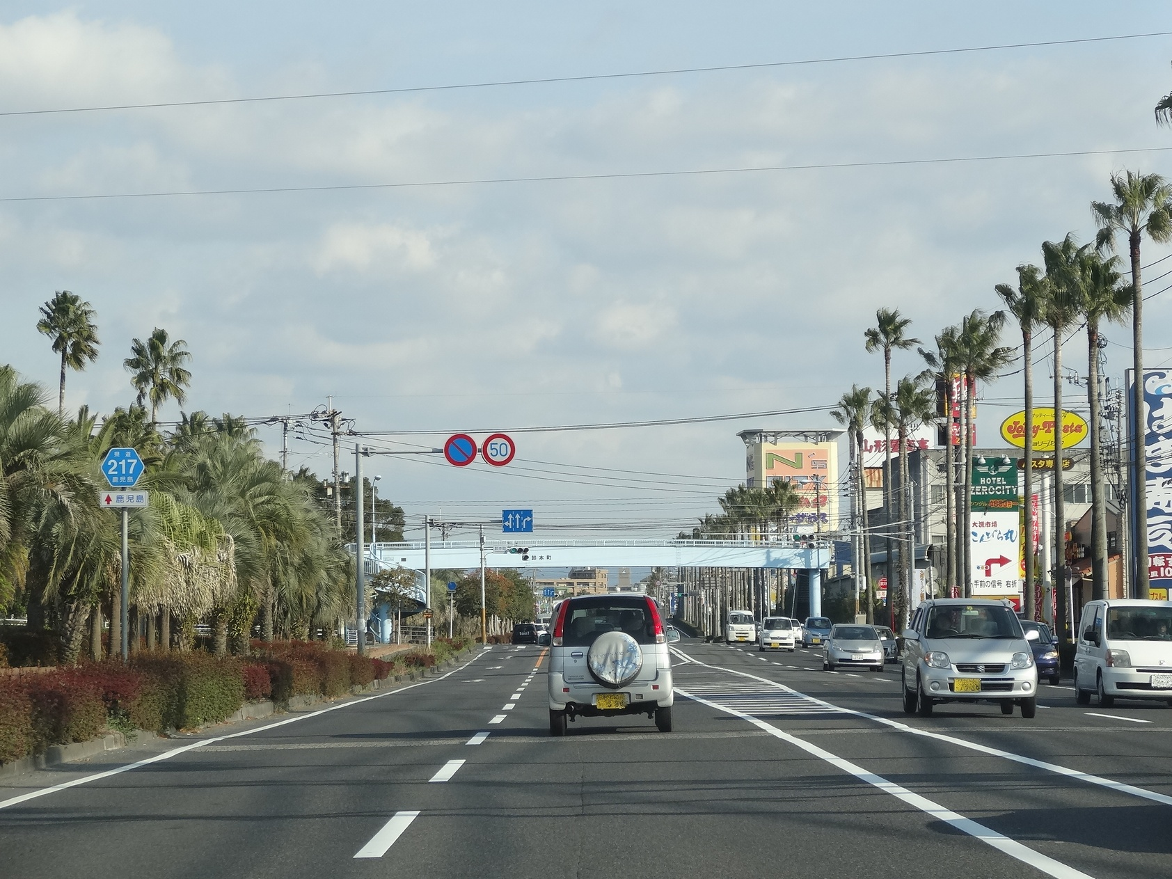 The Kagoshima Prefectural Road Route 217, aka Sangyo doro (Industrial Road) in Oroshihonmachi, Kagoshima City